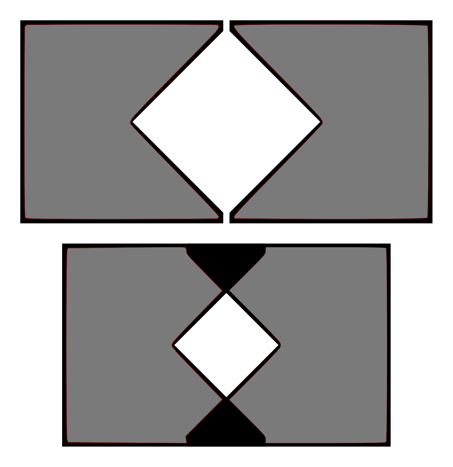 Shear cutter blades shown schematically: top pair shown in open position; bottom pair shown part-closed.